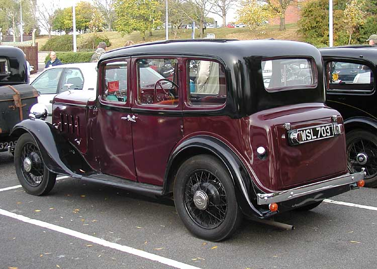 1935 Austin Ascot at a Classics Rally at Aust Motorway Services, Bristol, England.